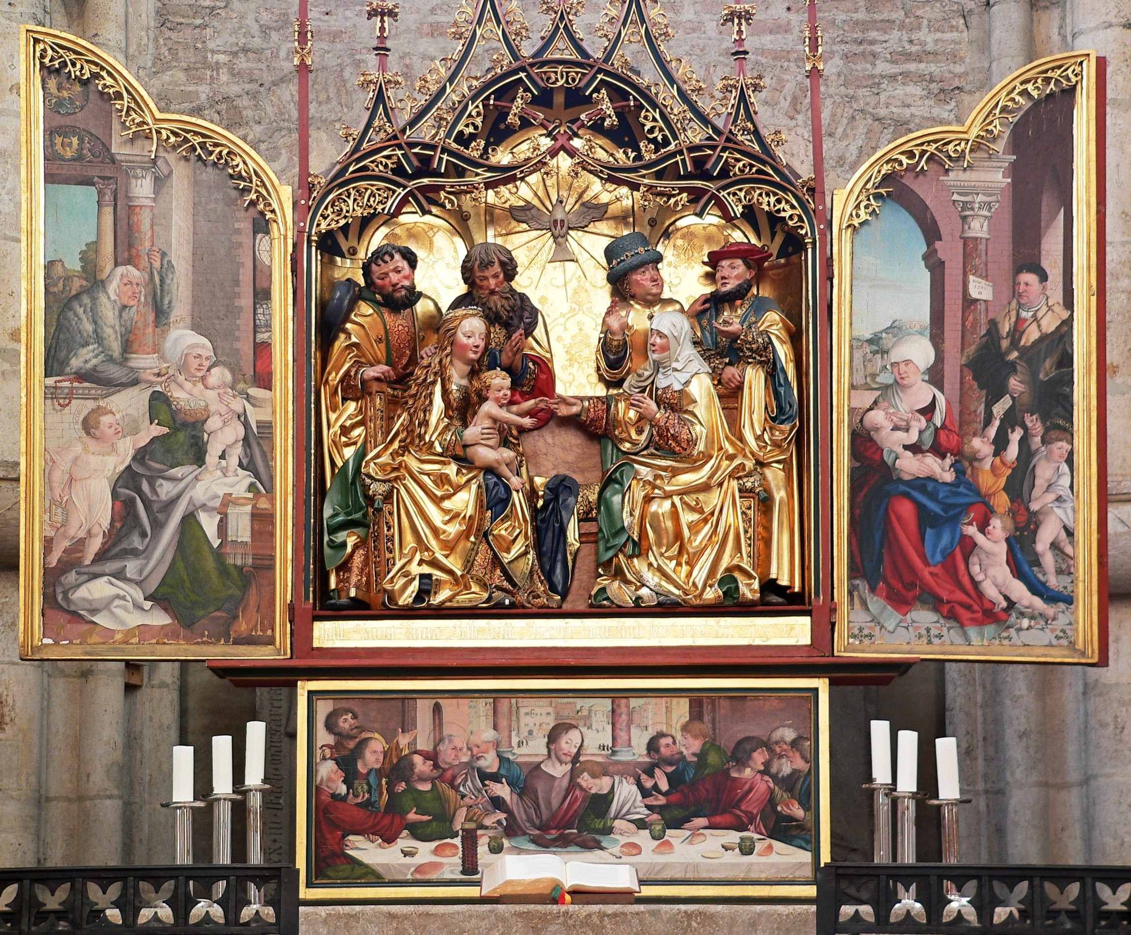 The Lutheran cathedral "Ulm Münster" of Ulm/Germany, altar by Martin Schaffner